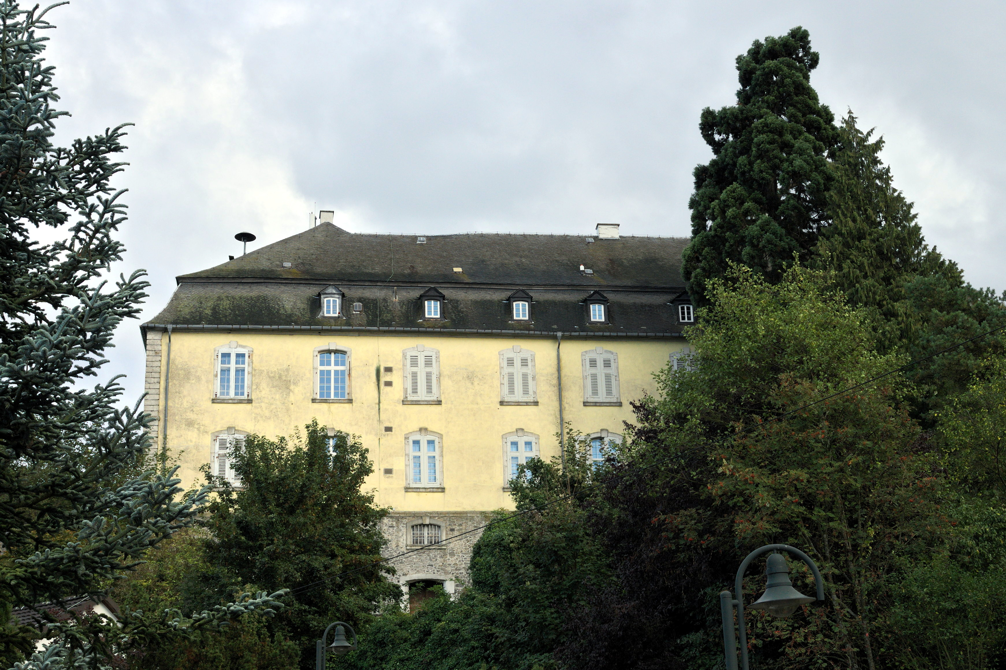 Molsberg castle in Molsberg, Westerwald region, Germany. Seen from Hauptstraße road in the west